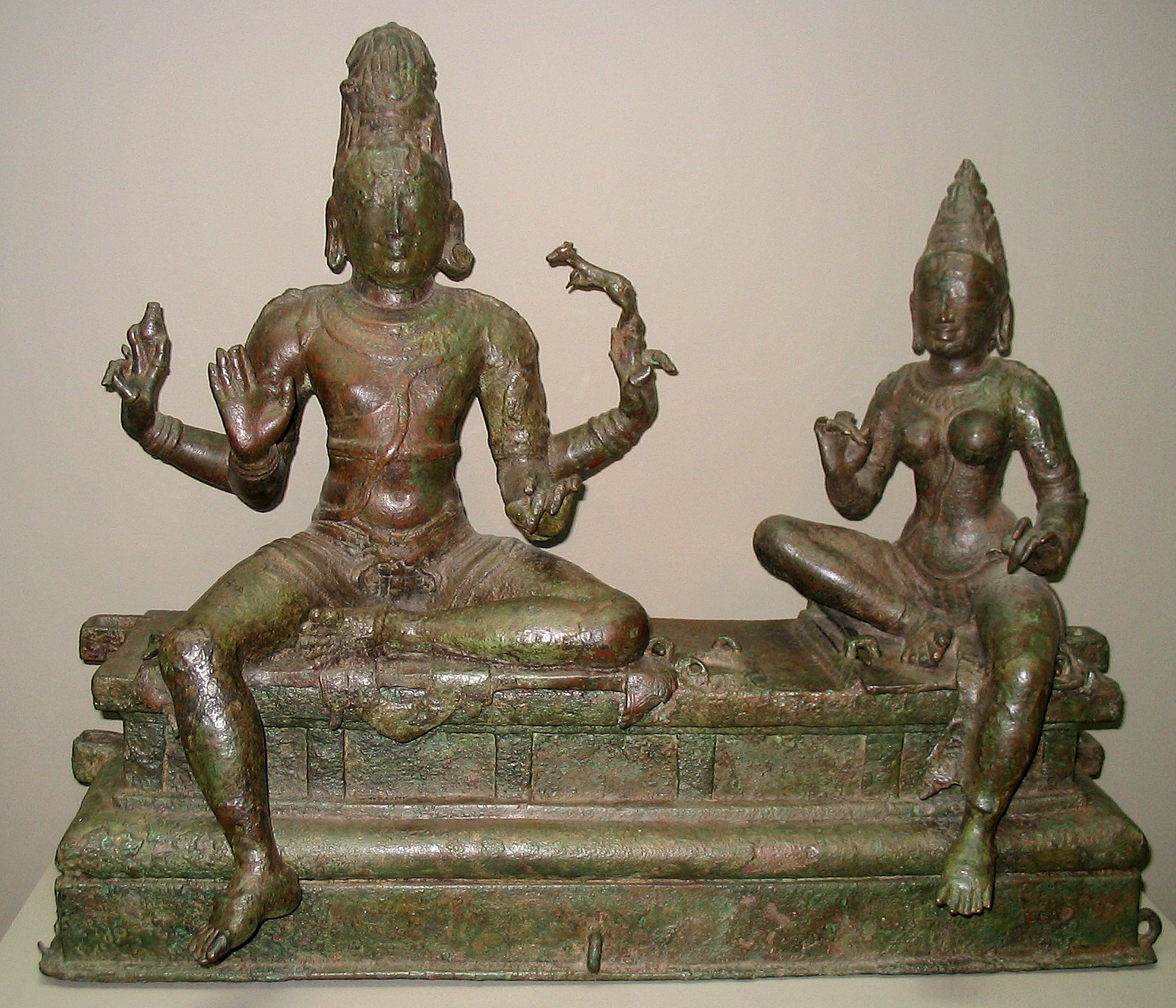 Somaskanda (Shiva and his wife Uma) 12th century Chola dynasty Bronze H: 59.2 W: 71.8 D: 31.6 cm South India Housed in the Arthur M. Sackler Gallery in the Smithsonian, Washington, D.C.